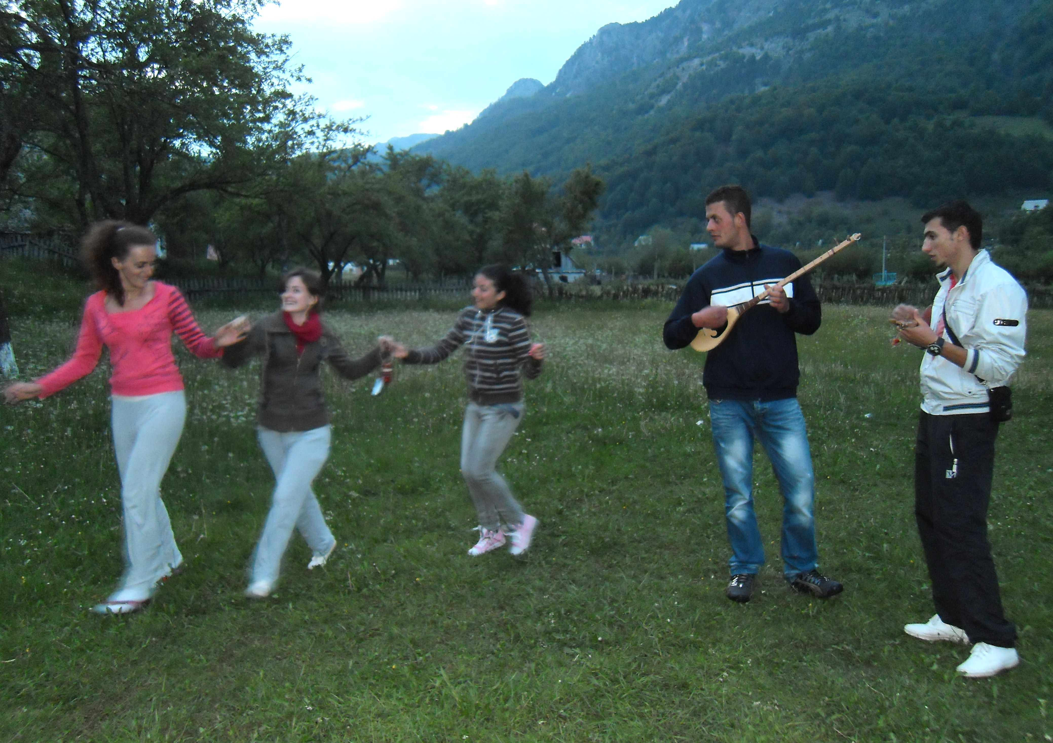 Young musicians and dancing girls in Albania